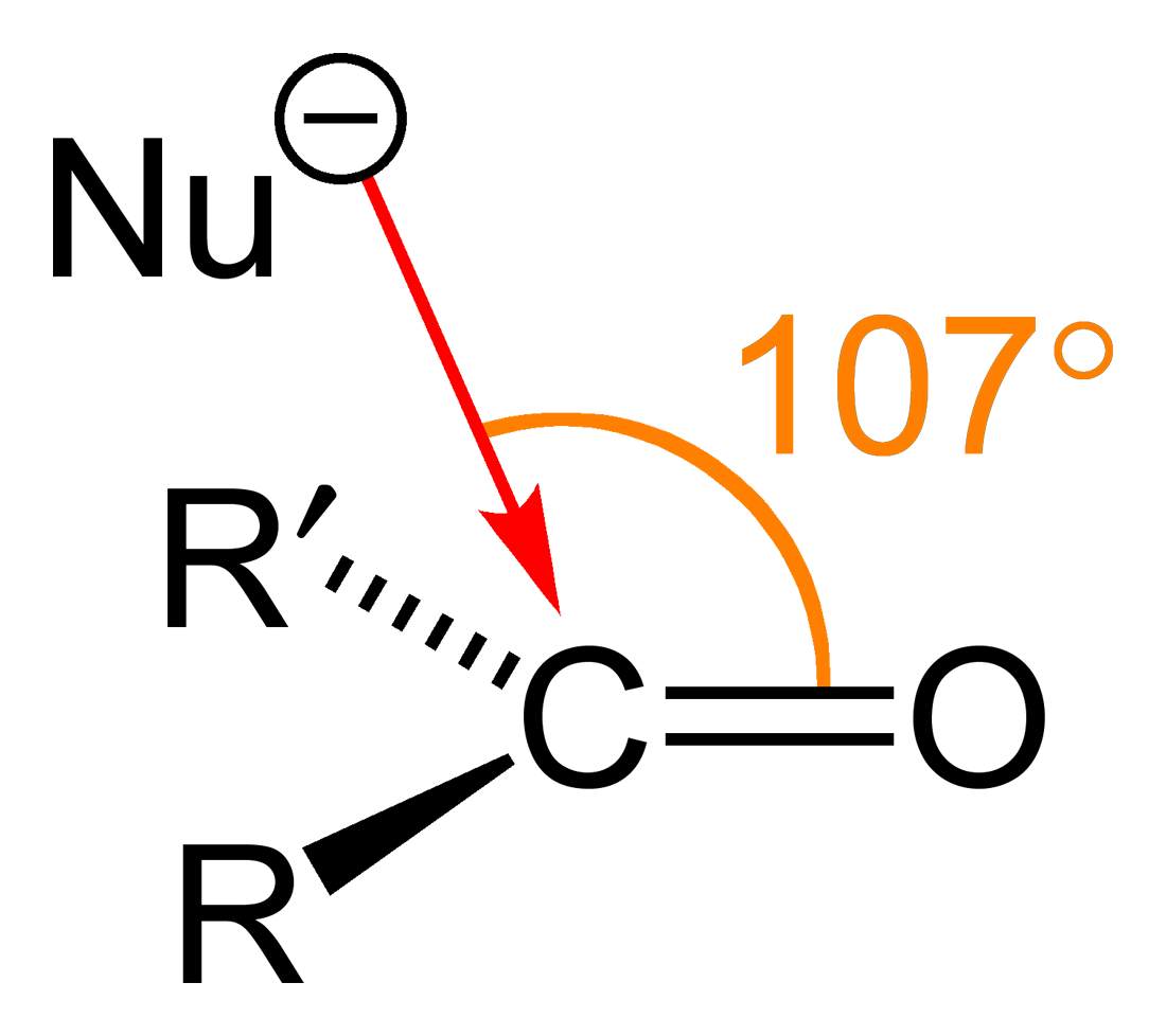 Diagram of the Bürgi-Dunitz angle